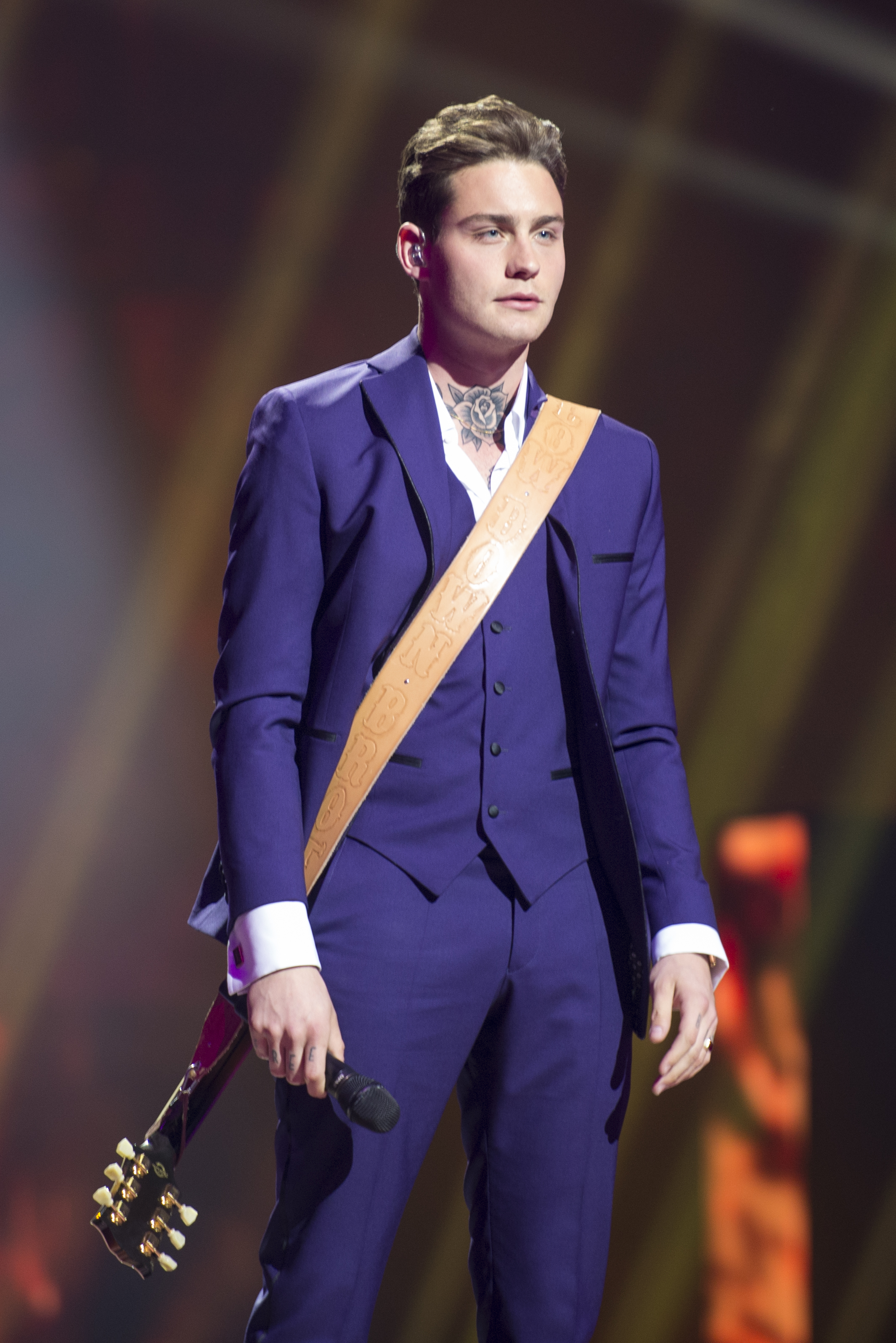 Douwe Bob representing Netherlands with the song "Slow Down" during a rehearsal before the first semi final of the Eurovision Song Contest 2016 in Stockholm. (Help translate this text)